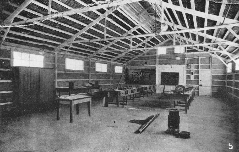 Inside Mount Morgan Technical College's Plumbing Department, Mt. Morgan, 1909 Classroom with students' desks and plumbing equipment. A blackboard is against the back wall.